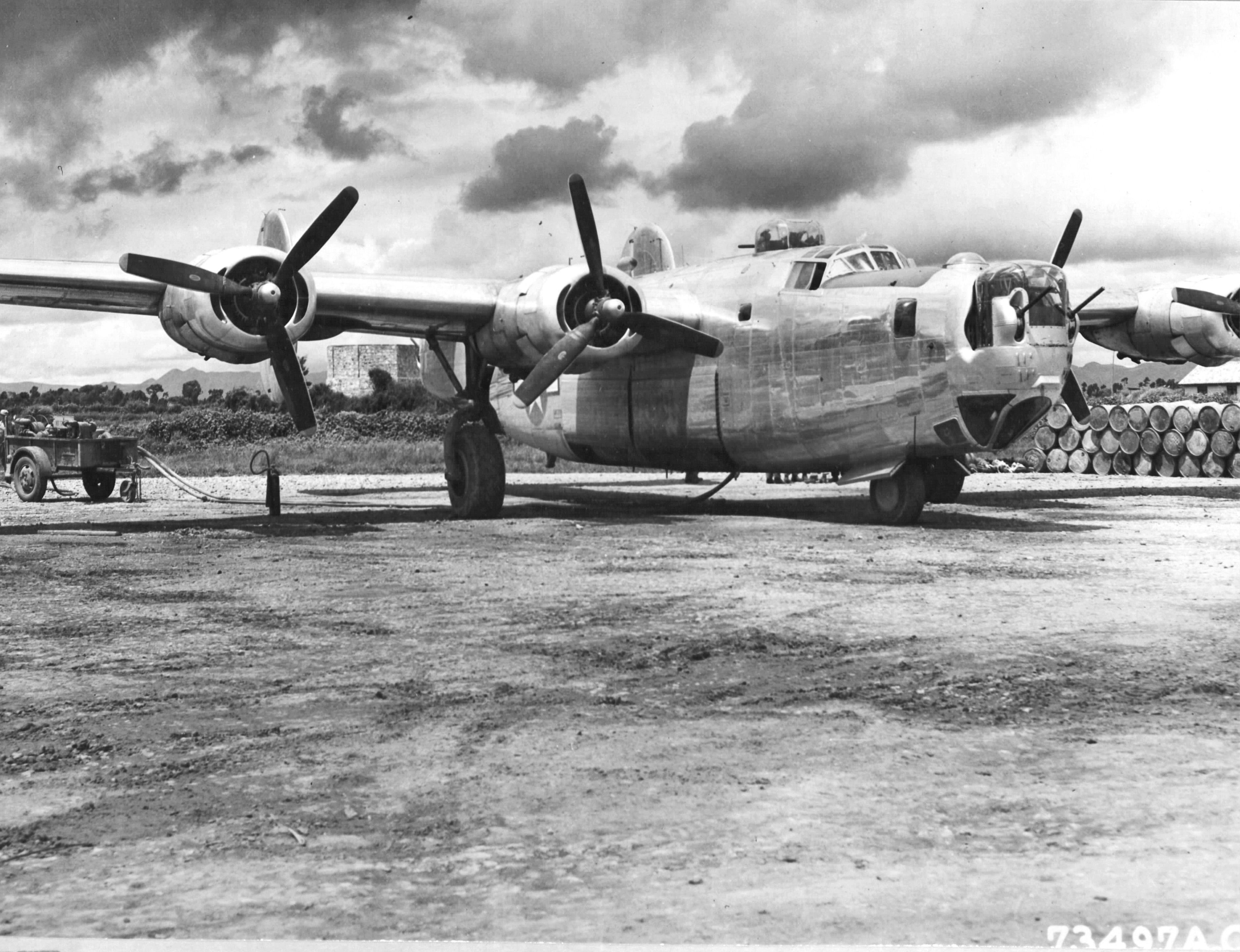 B-24J-185-CO Liberator 44-40852 436th BS 7th BG 1944 Unloading fuel after flying "The Hump" into Kunming, China on September 6, 1944.